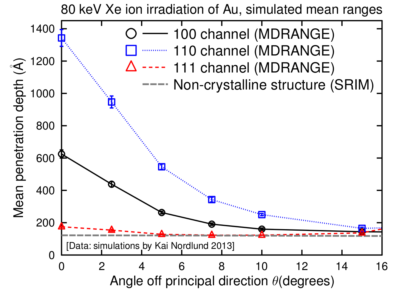 Computer simulations (molecular dynamics and binary collision approximation) of Xe ranges in Au single crystal